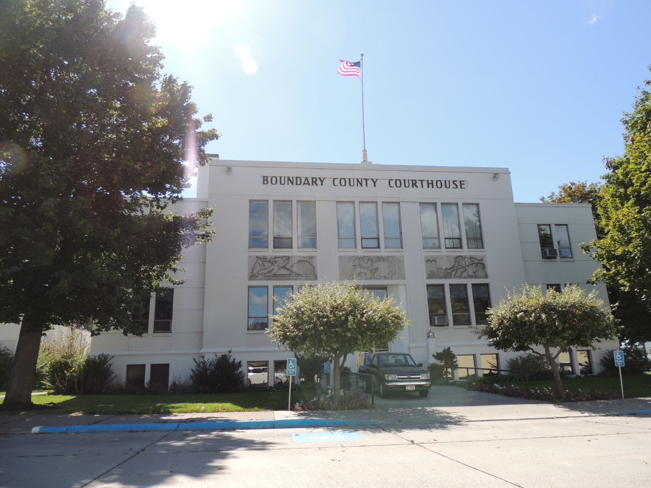 NRHP-listed Boundary County Courthouse in Bonners Ferry, Idaho. The bas-relief panels on the façade – Lumbering, Mining, Farming – were designed by artist Fletcher Martin.